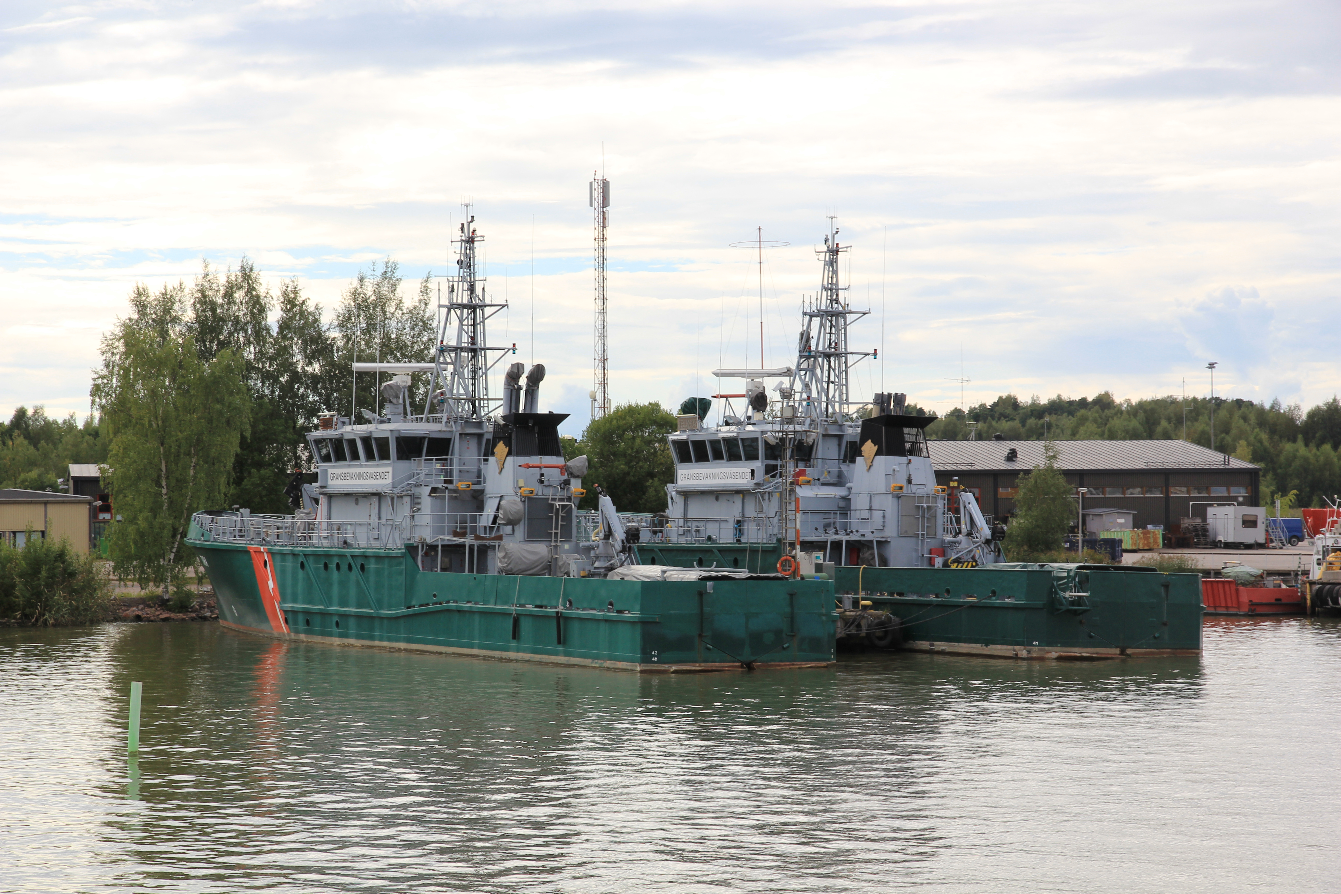 Finnish coast guard patrol crafts Telkkä and Tiira in Latokari harbour in Turku Hirvensalo island.